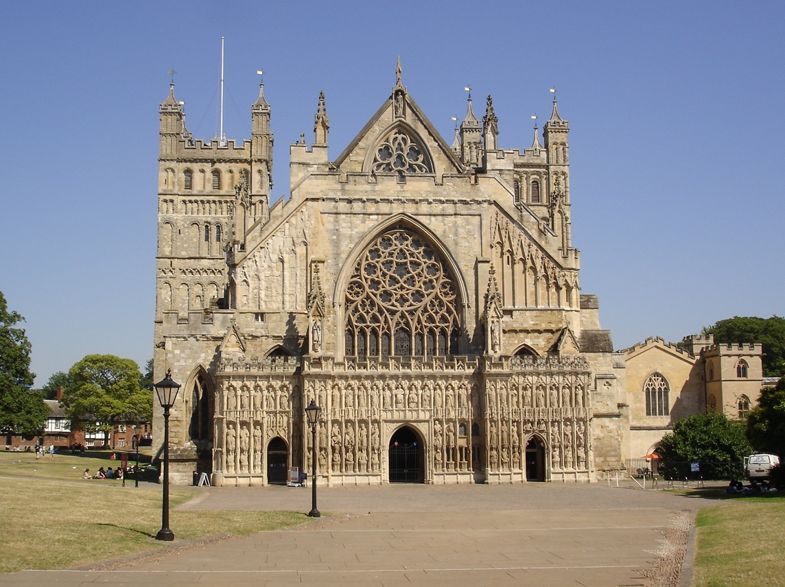 The founding of the cathedral at Exeter, dedicated to Saint Peter, dates from 1050, when the seat of the bishop of Devon and Cornwall was transferred from Crediton because of a fear of sea-raids. A Saxon minster already existing within the town (and dedicated to Saint Mary and Saint Peter) was used by Bishop Leofric as his seat, but services were often held out of doors, close to the site of the present cathedral building. In 1107 William Warelwast, a nephew of William the Conqueror, was appointed to the see, and this was the catalyst for the building of a new cathedral in the Norman style. Its official foundation was in 1133, during Warelwast's time, but it took many more years to complete.[1] Following the appointment of Walter Bronescombe as bishop in 1258, the building was already recognized as outmoded, and it was rebuilt in the Decorated Gothic style, following the example of nearby Salisbury. However, much of the Norman building was kept, including the two massive square towers and part of the walls. It was constructed entirely of local stone, including Purbeck Marble. The new cathedral was complete by about 1400, apart from the addition of the chapter house and chantry chapels. Like most English cathedrals, Exeter suffered during the Dissolution of the Monasteries, but not as much as it would have done had it been a monastic foundation. Further damage was done during the English Civil War, when the cloisters were destroyed. Following the restoration of Charles II, a new pipe organ was built in the cathedral by John Loosemore. Charles II's sister Henrietta Anne of England was baptised here in 1644. During the Victorian era, some refurbishment was carried out by George Gilbert Scott. - Wikipedia